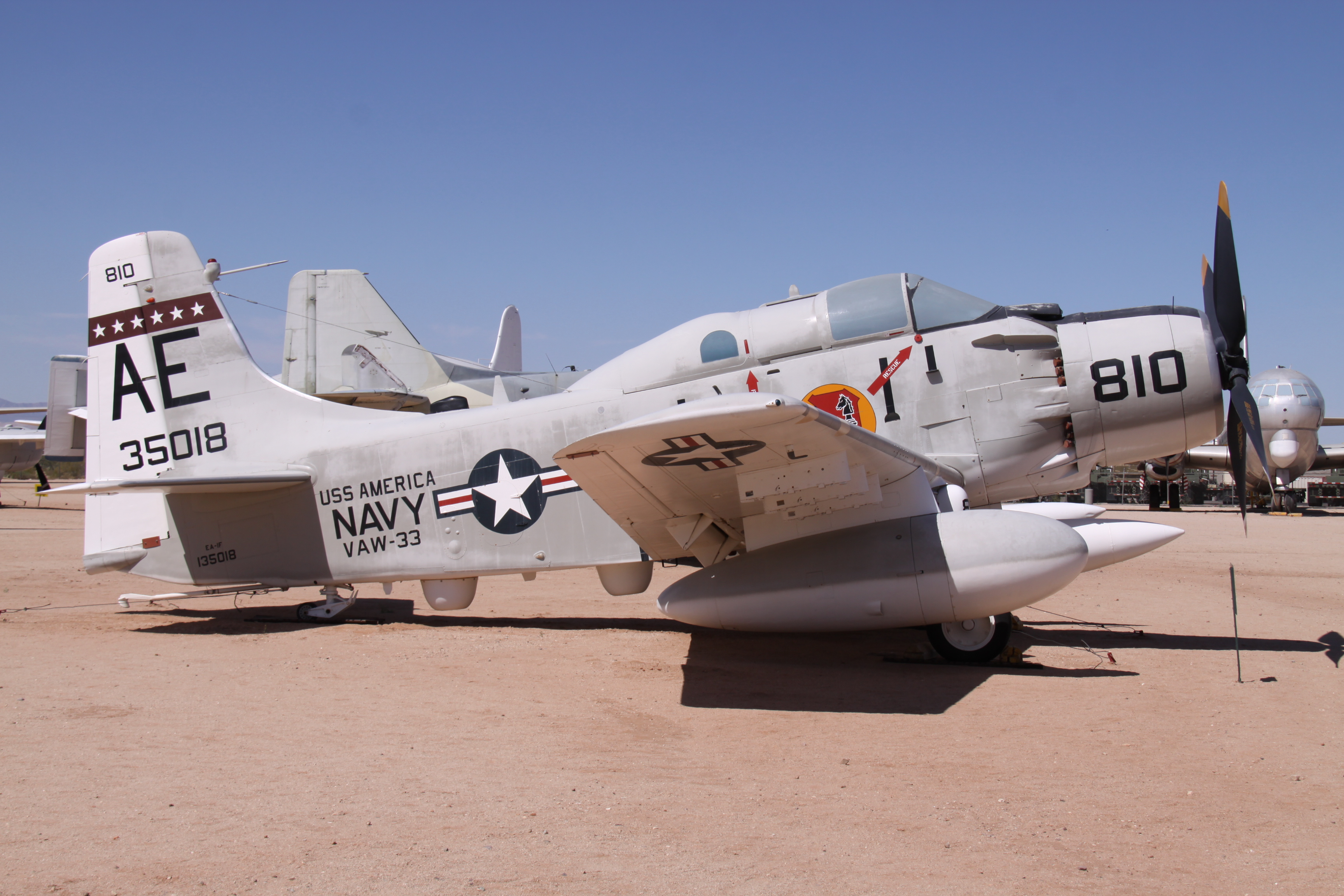 At Pima Air & Space Museum